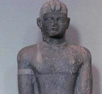 Statue of Anlamani in Khartum, National Museum (SNM 1845), found at Jebel Barkal